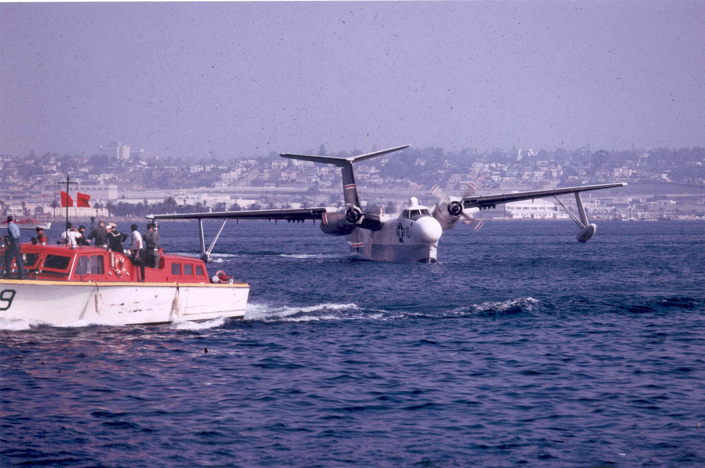 A U.S. Navy Martin SP-5B Marlin (BuNo. 135533) of patrol squadron VP-40 Fighting Marlins landing after its last operational flight in San Diego Bay on 6 November 1967. It is now on display at the National Museum of Naval Aviation at Pensacola, Florida (USA).